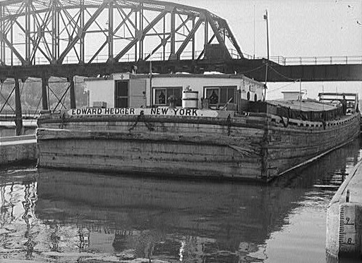 Many of the Erie Canal barges are still built of wood. Lock Eleven, Amsterdam, New York.